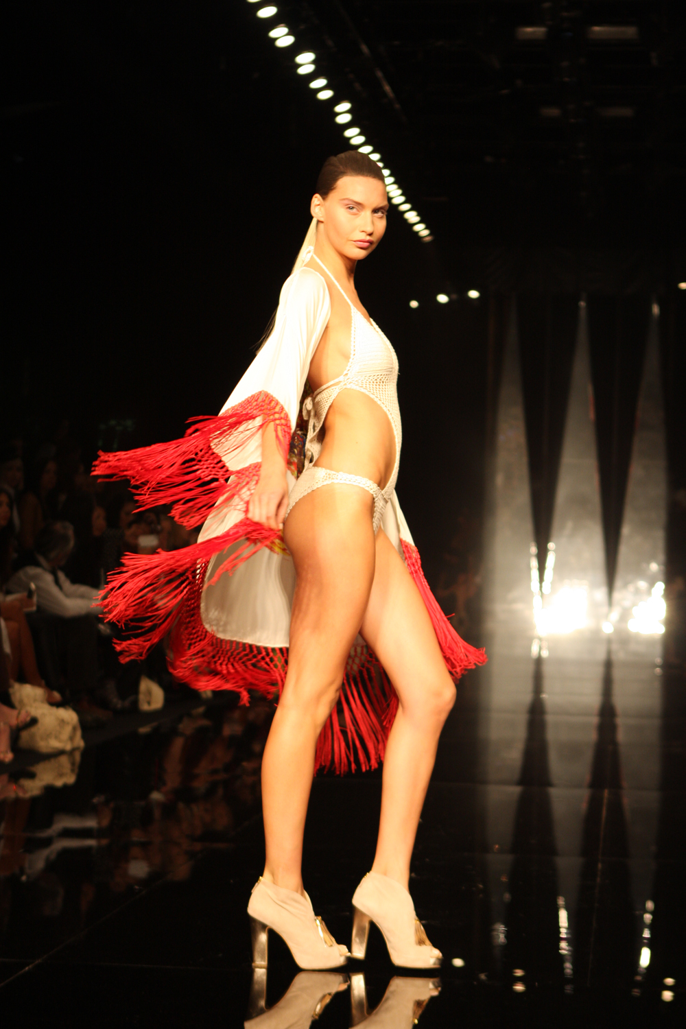 Mercedes-Benz Fashion Week; Cruise Bar hosts famous fashion event; MBFWA business wheels in motion